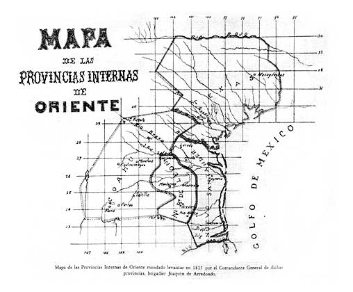 Map of the Provincias Internas de Oriente (Eastern Internal Provinces) in northeastern New Spain. Created by orders of Chief Civil and Military Commandant of the previous mentioned provinces, Joaquín de Arredondo (1768 - 1837).